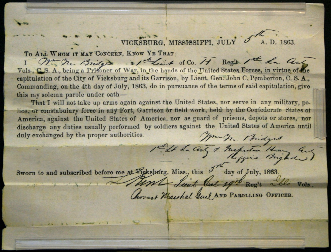 Vicksburg parole, issued to Lt. William B. McKinney, a Louisiana artyllery officcer